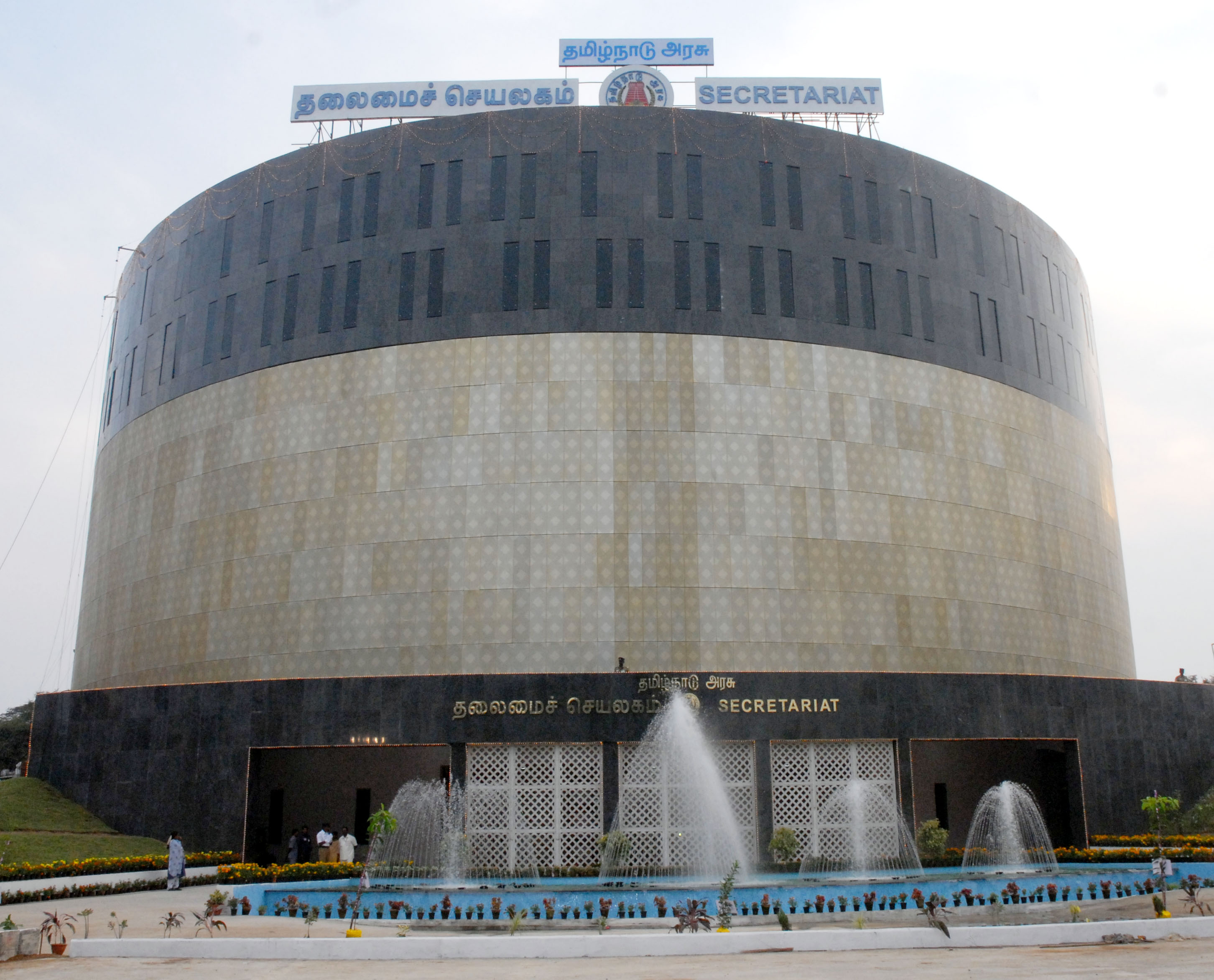 Government of Tamil Nadu - Secretariat Fornt View